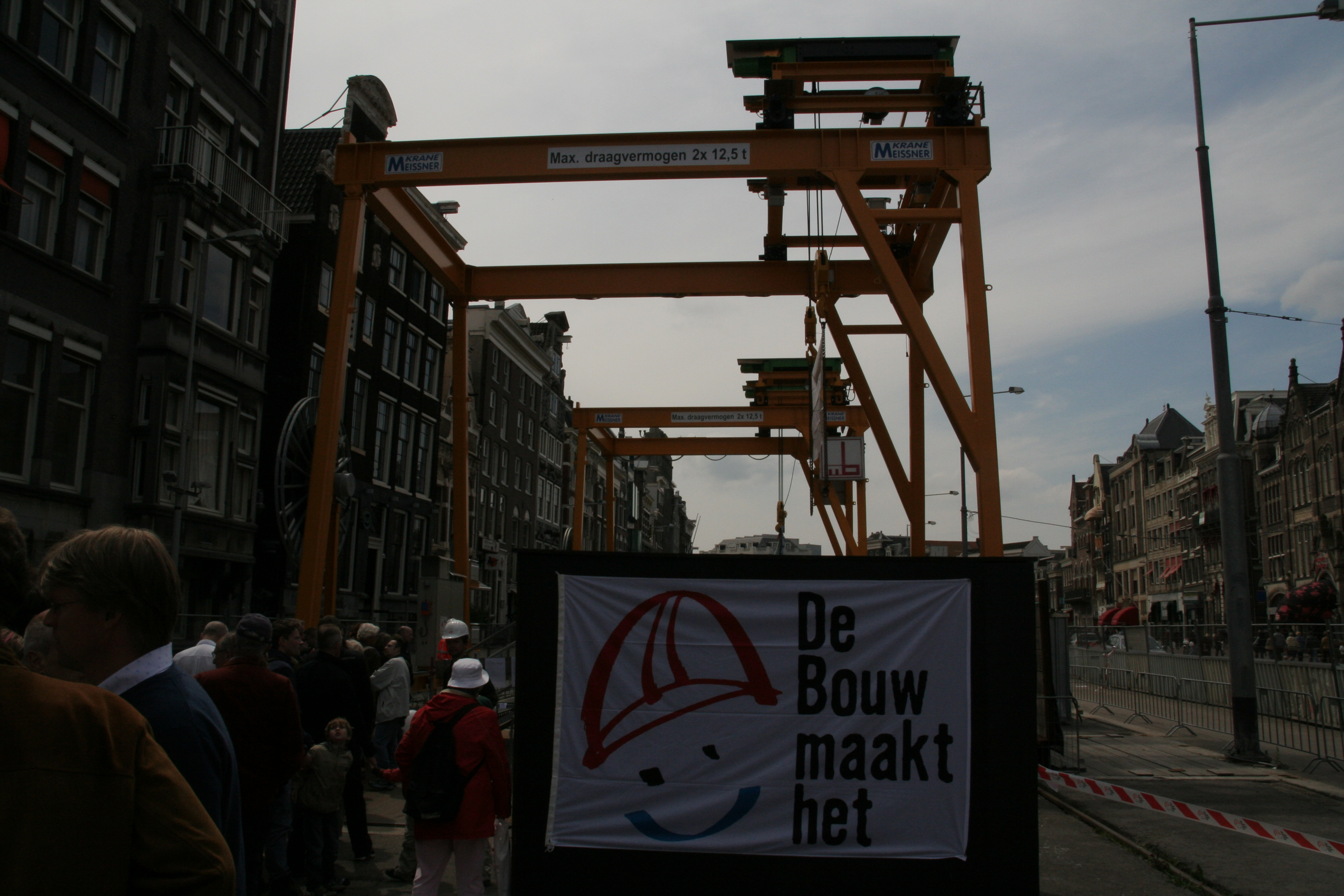 Dag van de bouw, Amsterdam